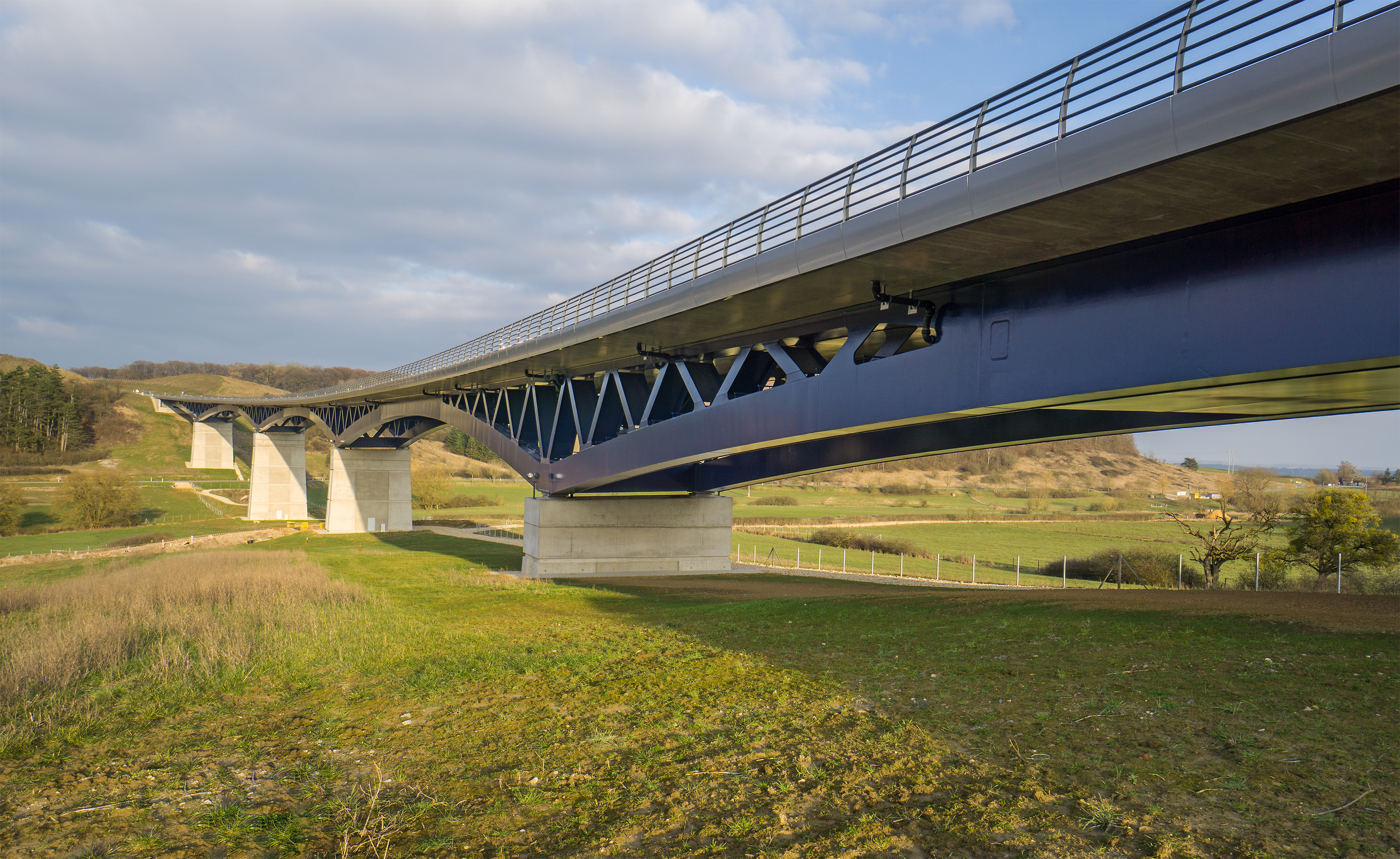 Blue bridge of the bypass of Junglinser